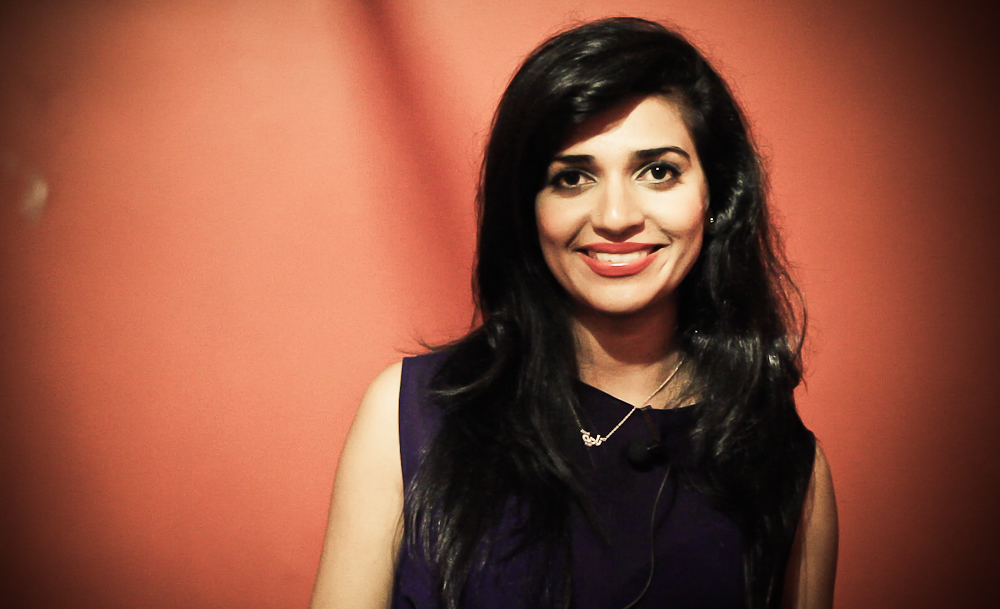 Nadia Ali interview at Avicii's show at Congress Theatre, Chicago. Photograph by Tamara Susa.